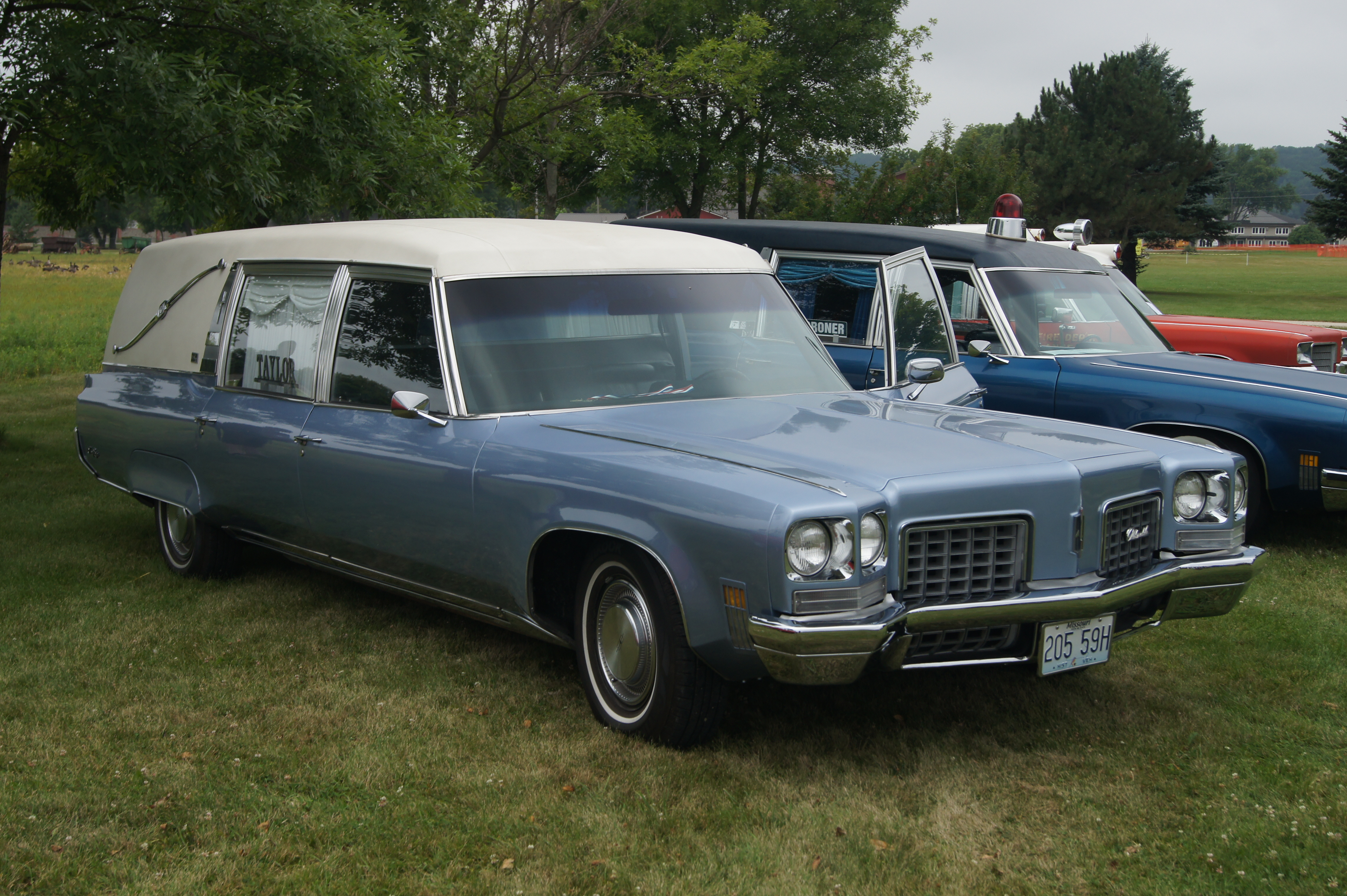 Professional Car Society International Meet 2014 Respond to Rochester Host: Northland Chapter (Celebrating Northland's 25th Anniversary) PCS Concours D'Elagance Show & Shine August 16, 2014 Olmstead County History Center Rochester, Minnesota You can see more car pictures by clicking on the link below